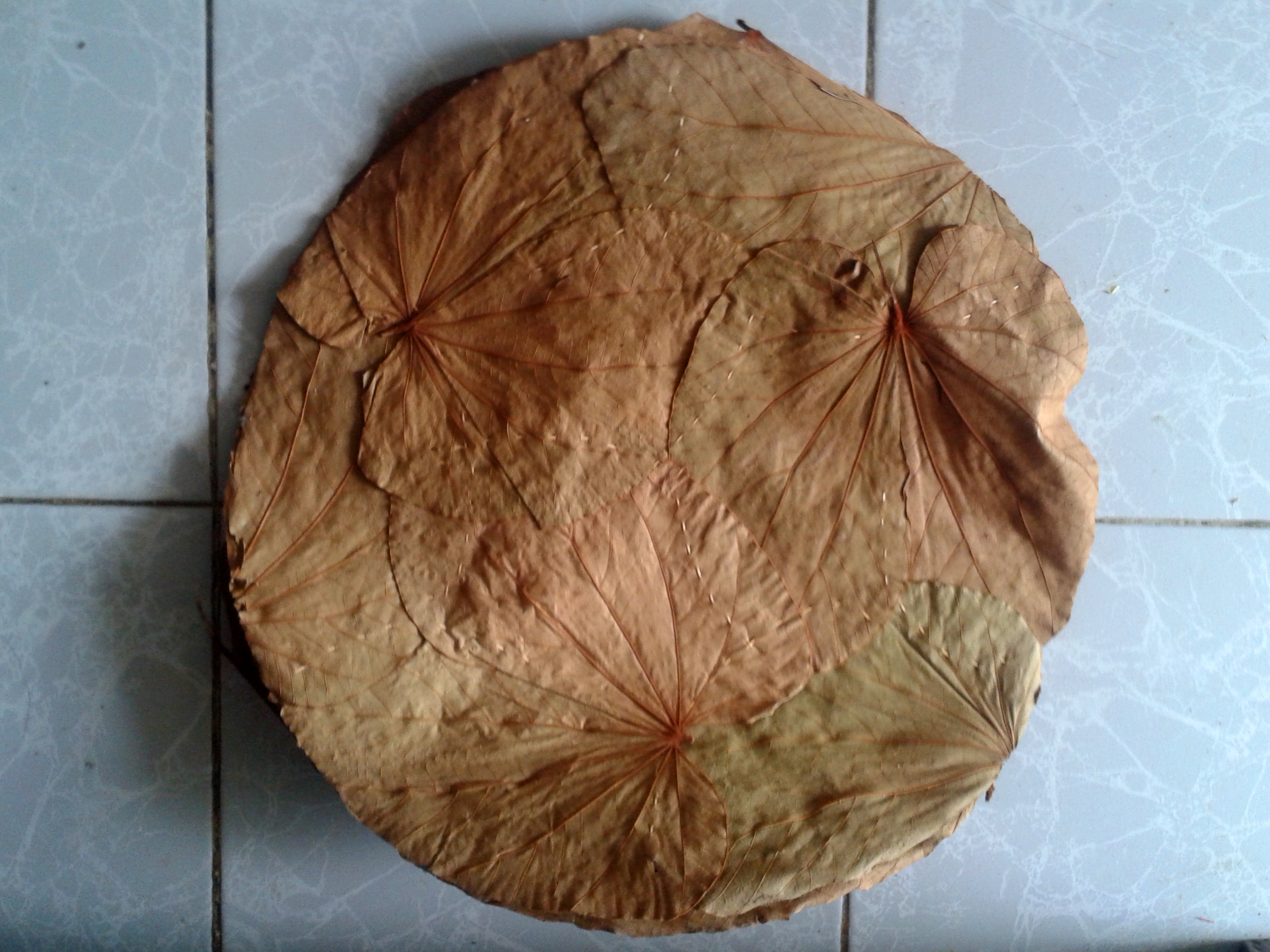 Vistaraku (An Indian eating plate) made with broad dried leaves, Madhurawada, Visakhapatnam